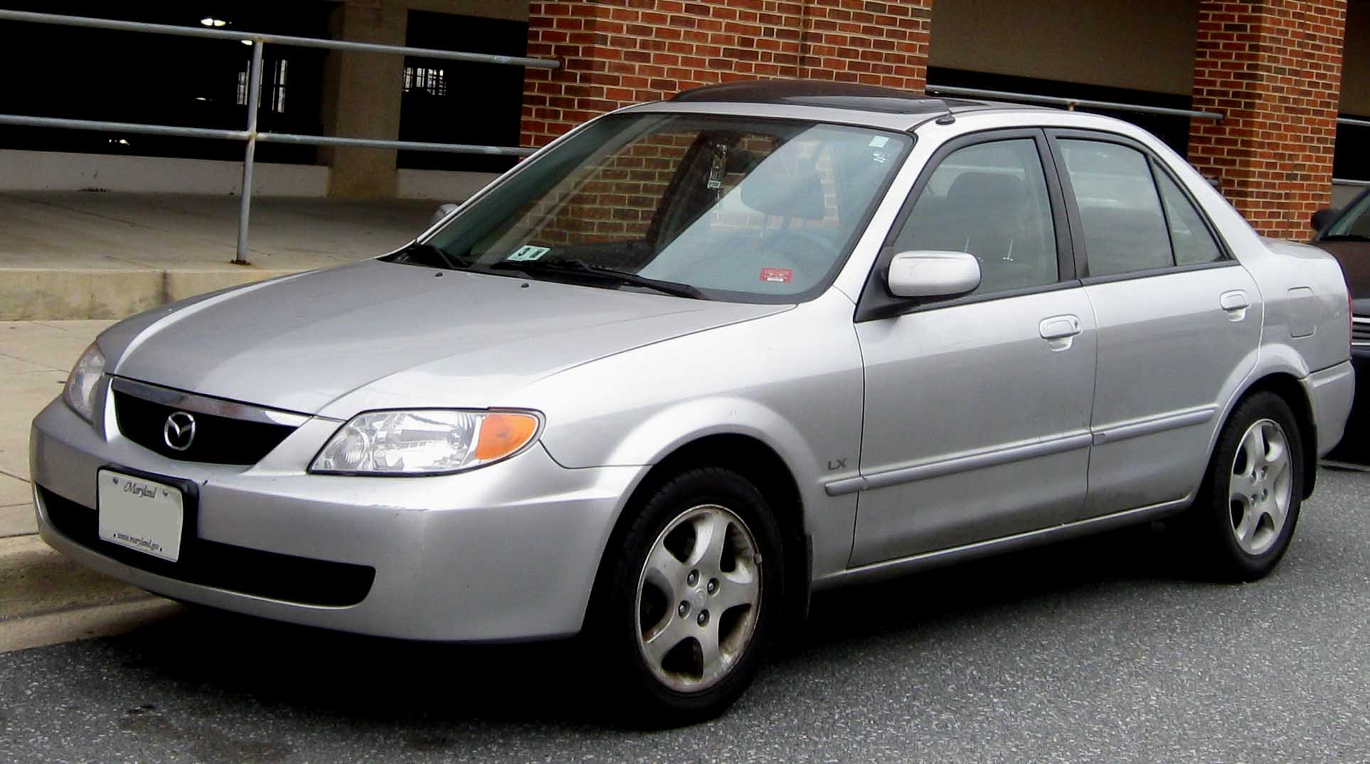 2001-2003 Mazda Protege photographed in College Park, Maryland, USA.